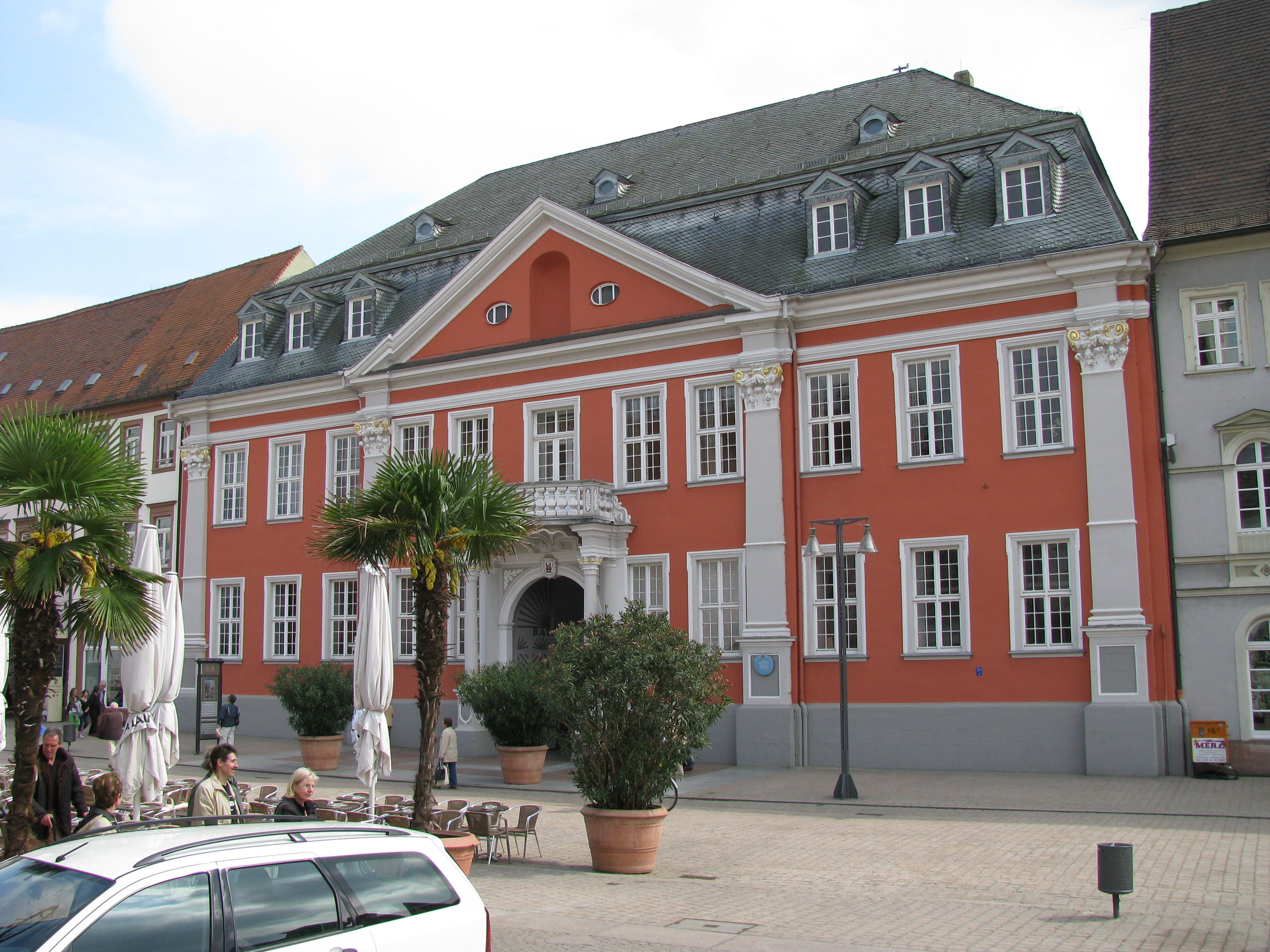 Speyer City Hall (Rathaus), Maximilianstrasse